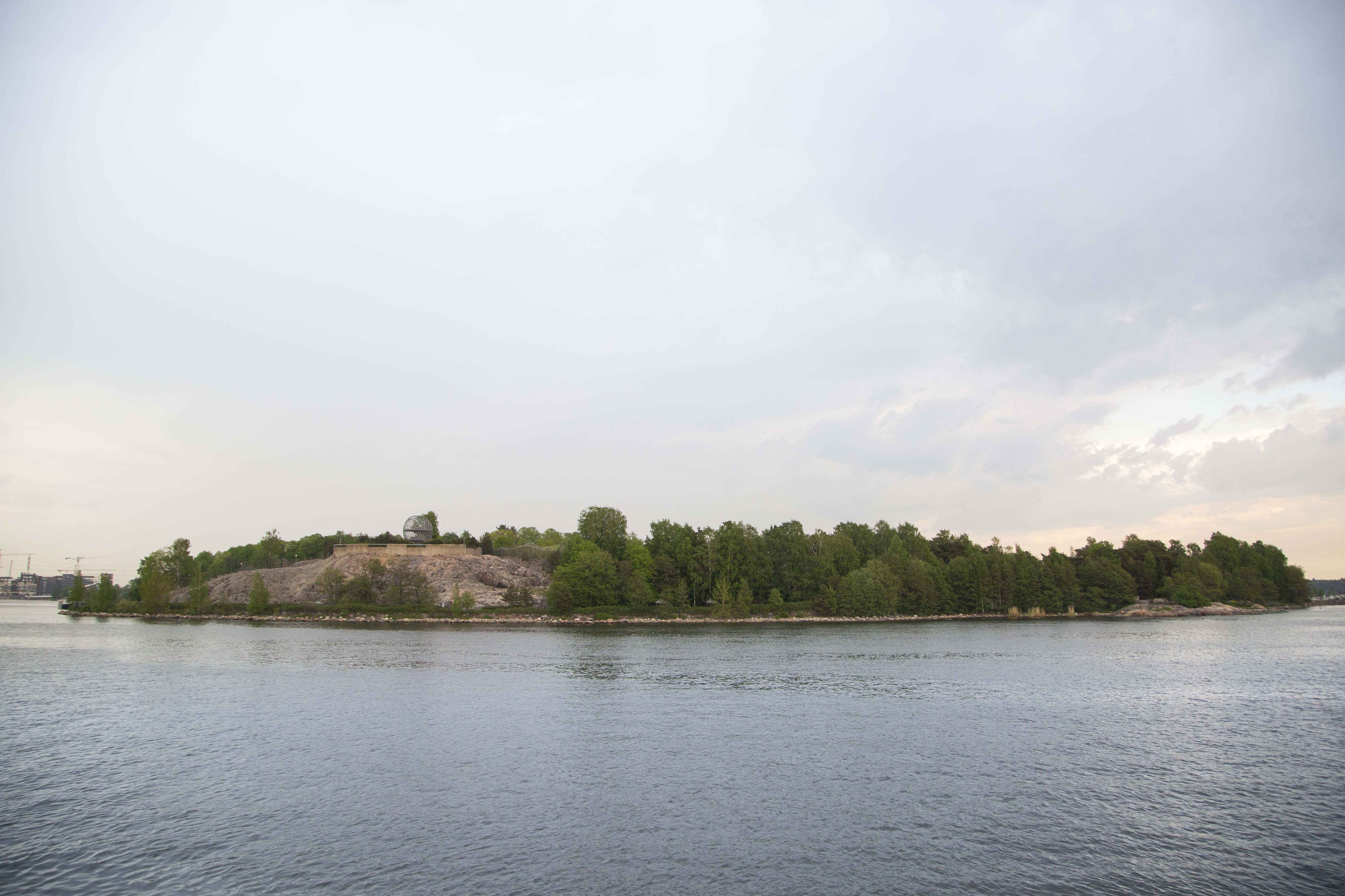 Island of Korkeasaari in Helsinki, Finland. Korkeasaari Zoo is on the island, and you can see the rocky habitat of goats in the picture along with the zoo's sightseeing tower. Picture: Annika Sorjonen (2019) / Korkeasaari Zoo